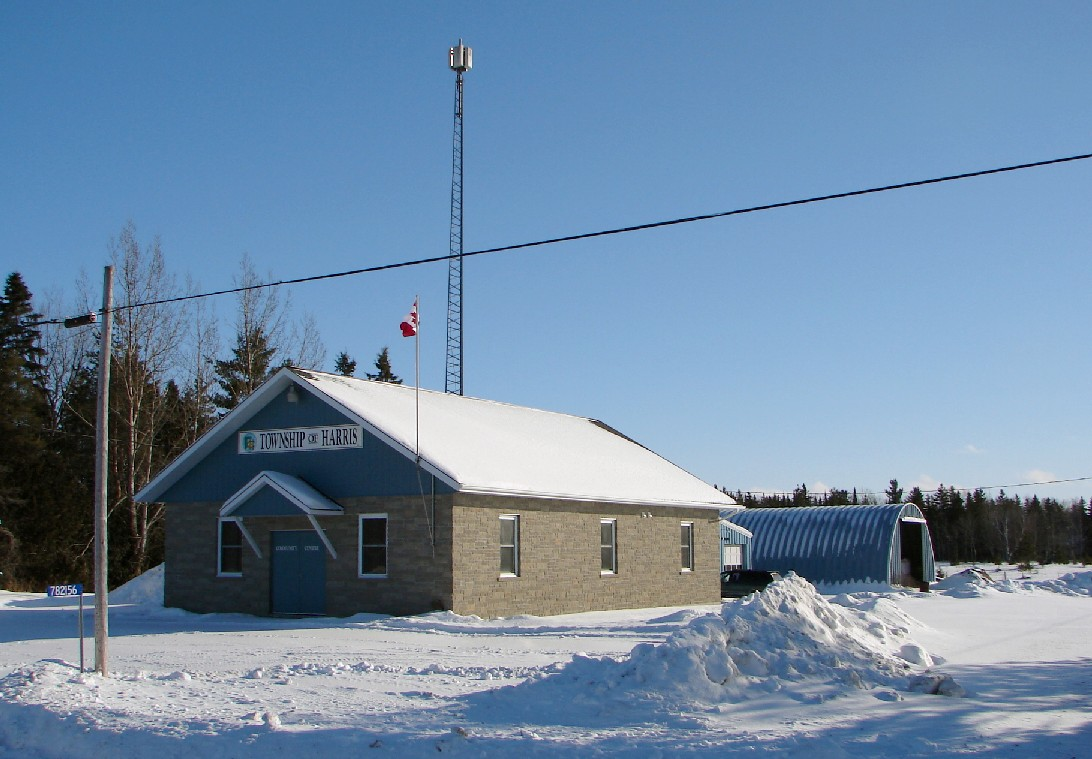 Community hall in Harris Township, Ontario, Canada